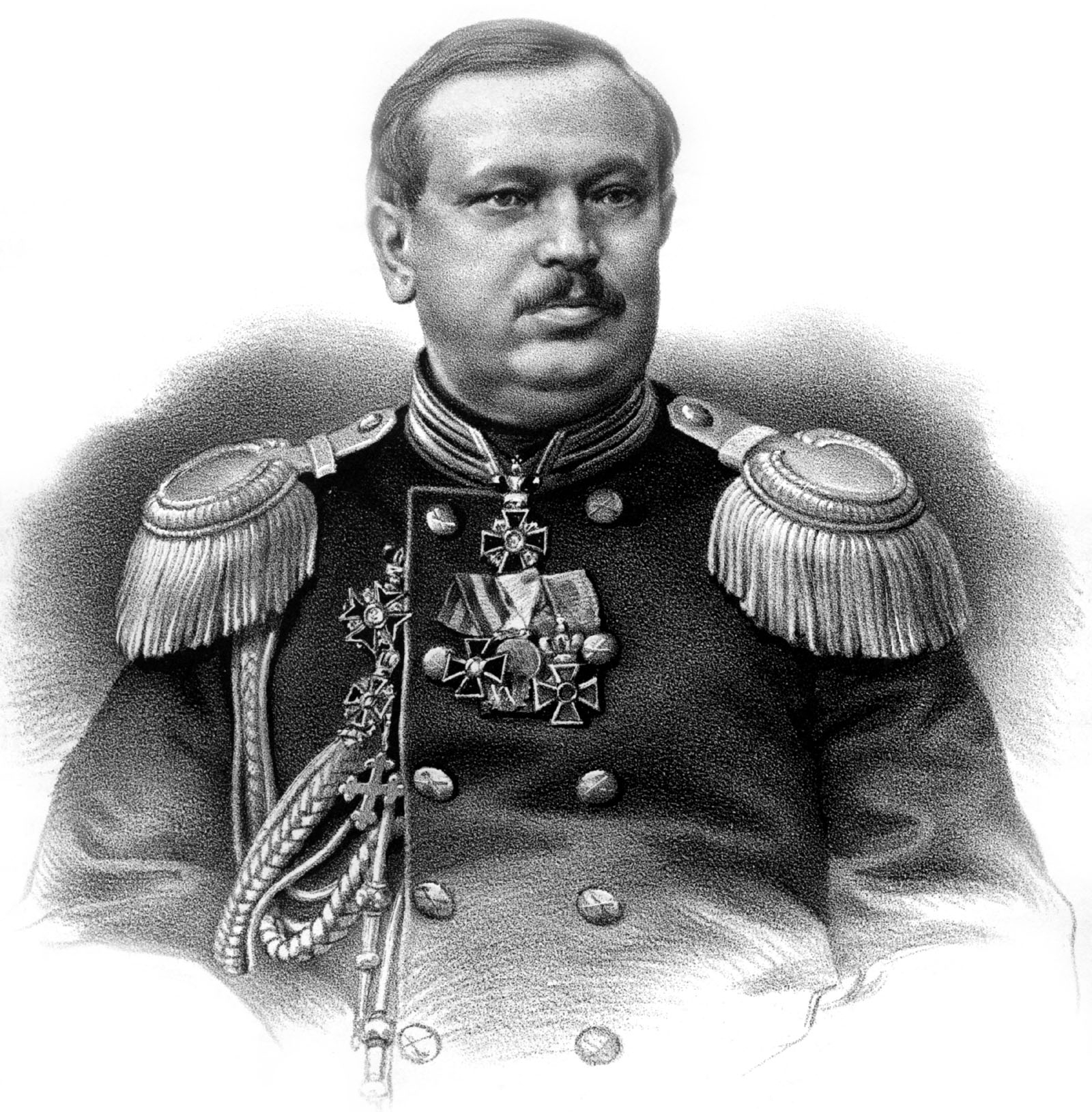 Nikolay Koksharov